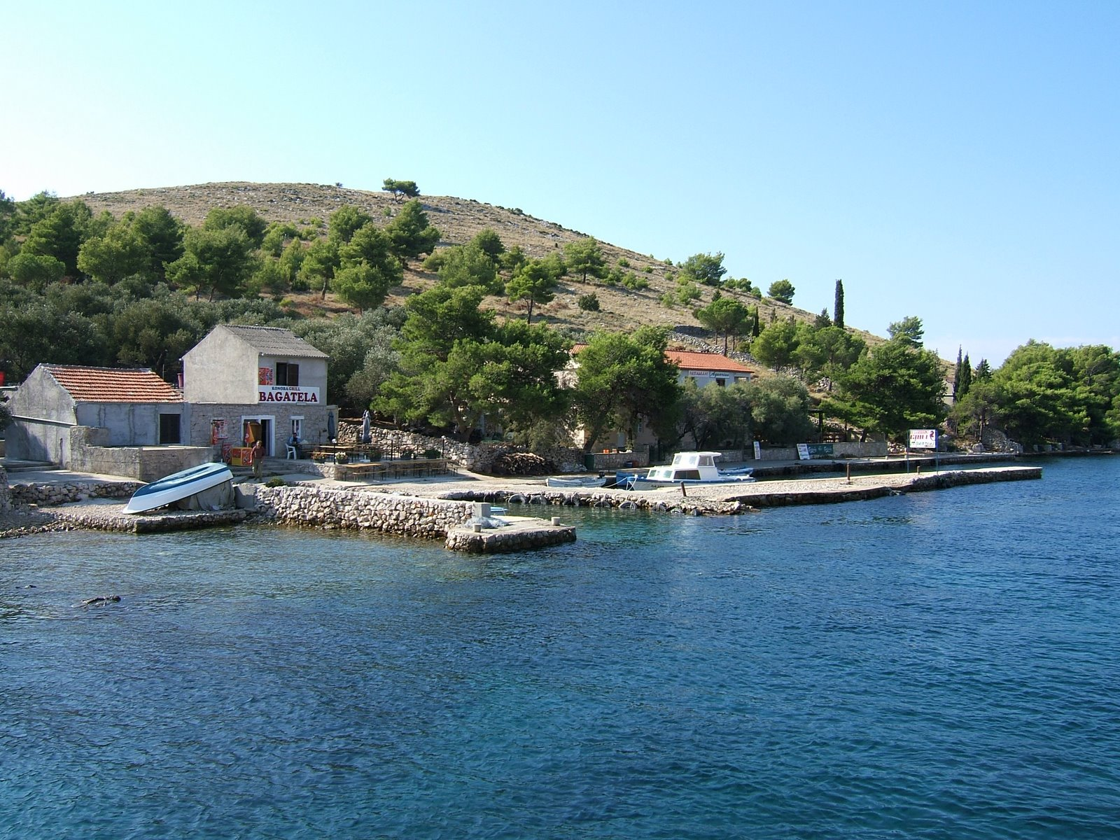 Katina island, Kornati. Tavern on the shore of the sea.